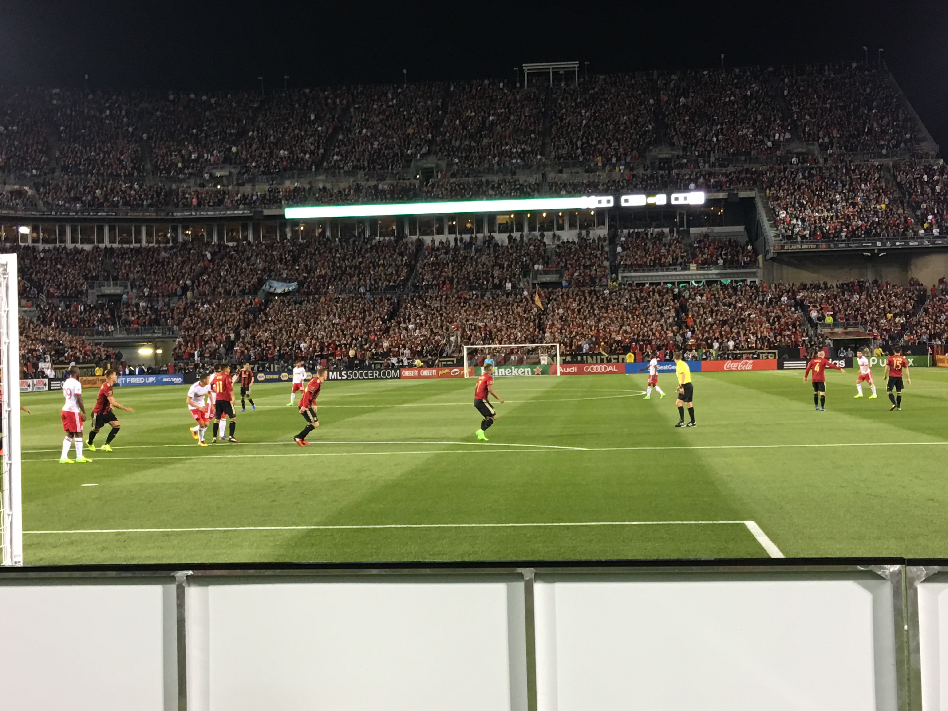 2017-03-05 - Atlanta United vs NY Red Bulls First Match